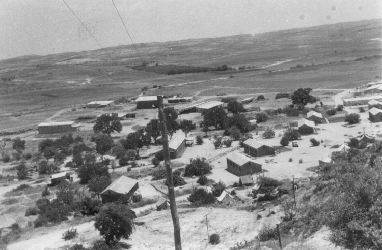 Kibbutz Erez at the beginning of 1949